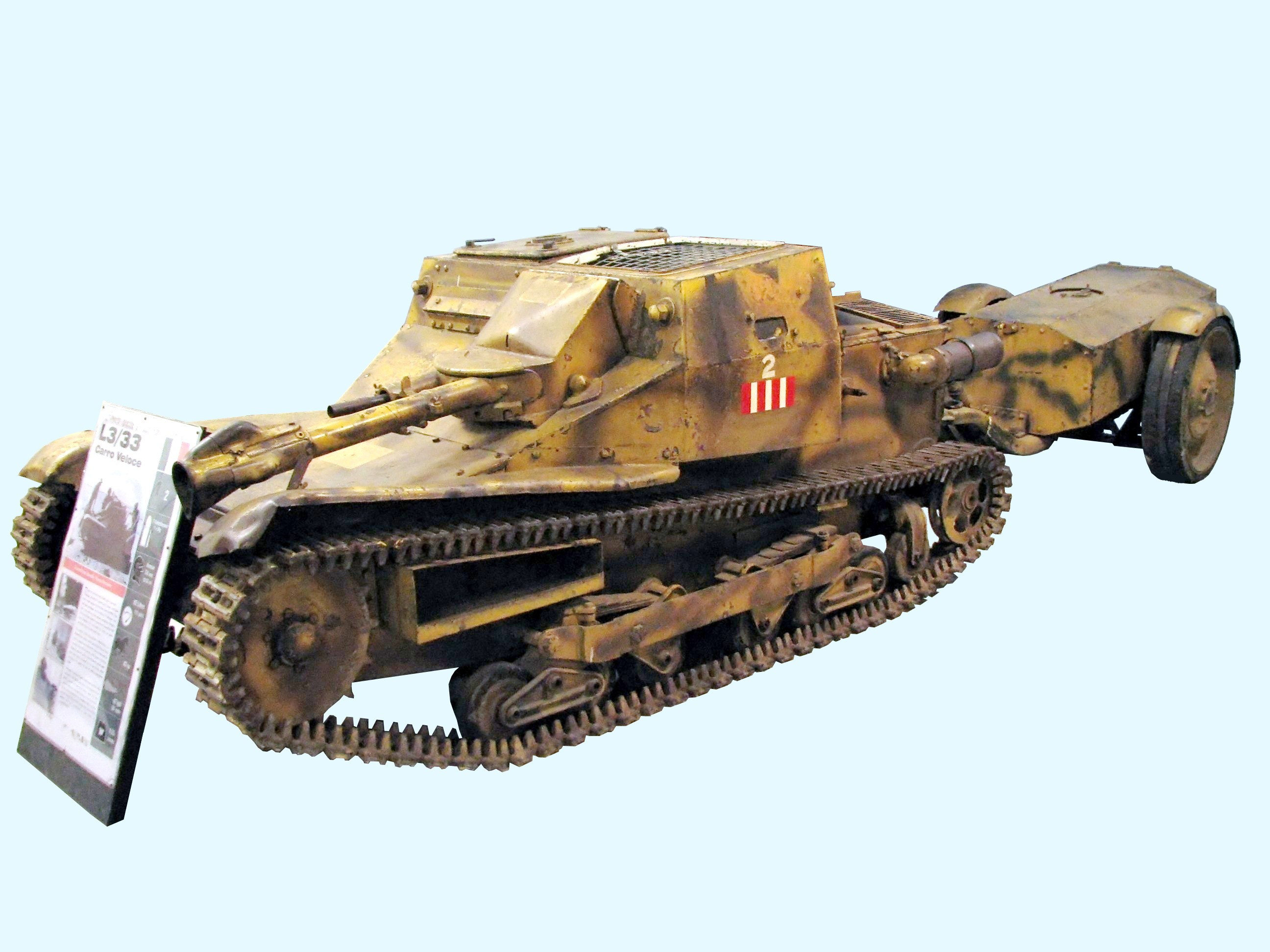 Italian light tank CV 3/33 Lf (Lancia fiamme) with the flamethrower at the Bovington Tank Museum